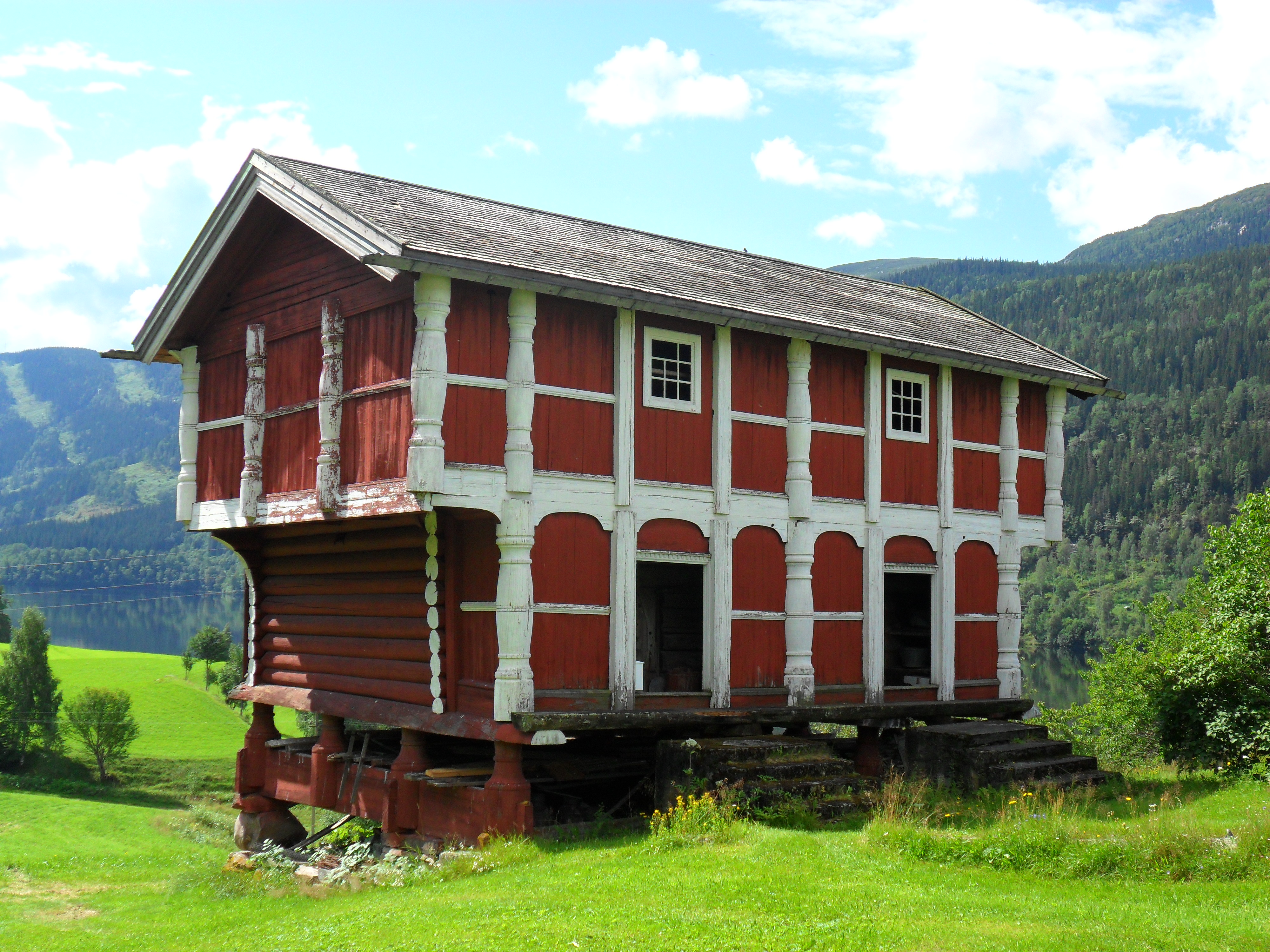 Farmhouse from the Middle Ages in Nore and Uvdal, Buskerud, Norway